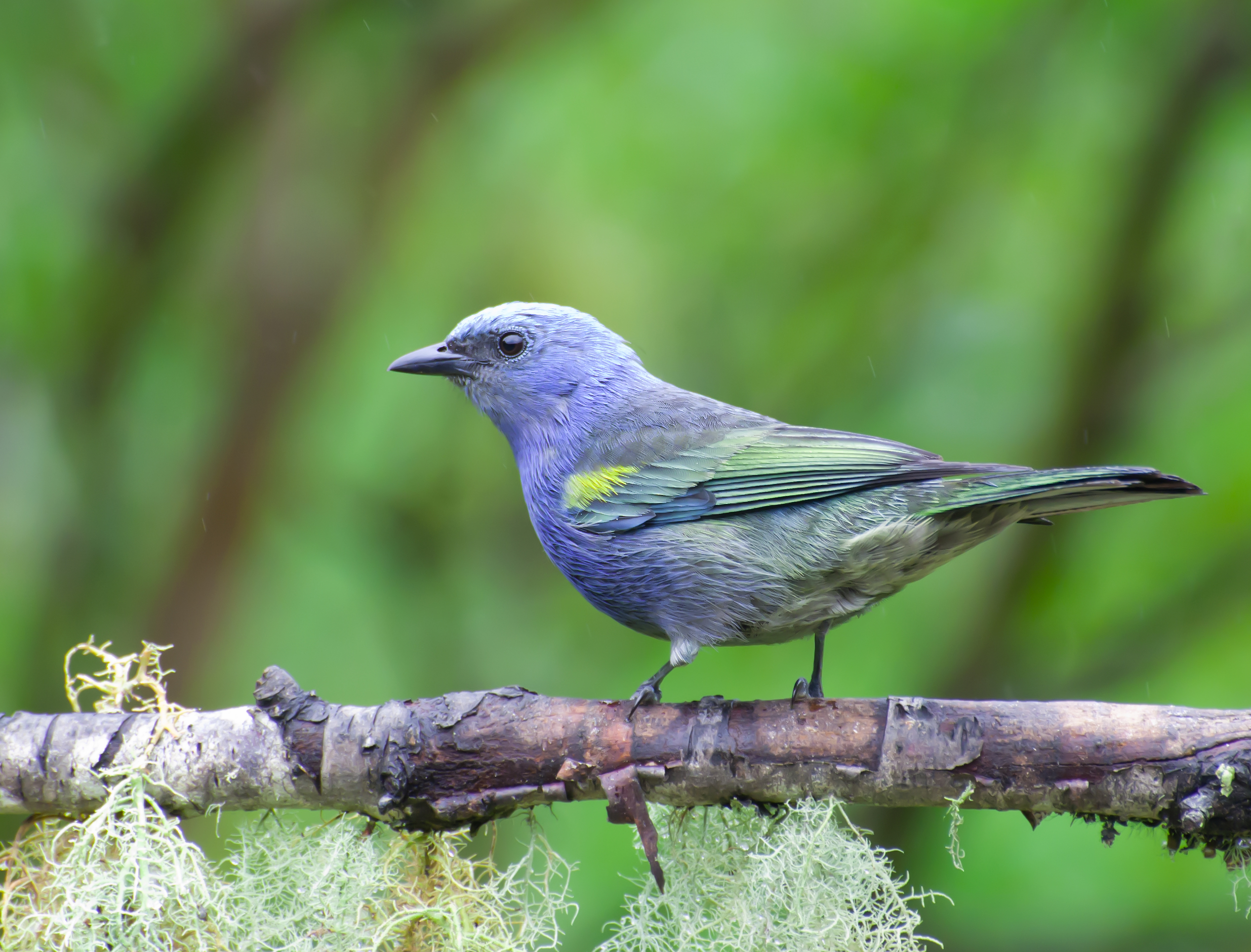 A Golden-chevroned Tanager in Reserva Guainumbi, São Luis do Paraitinga, São Paulo, Brazil.